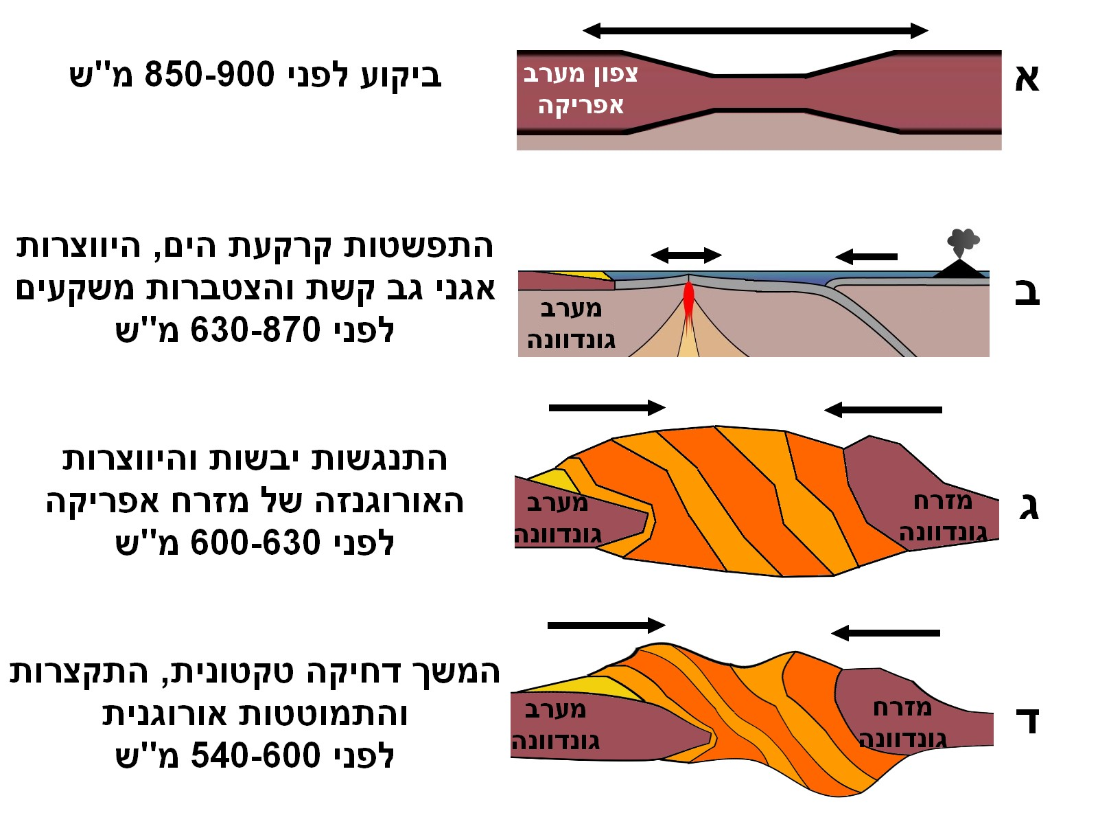 Development of the Arabian-Nubian Shield